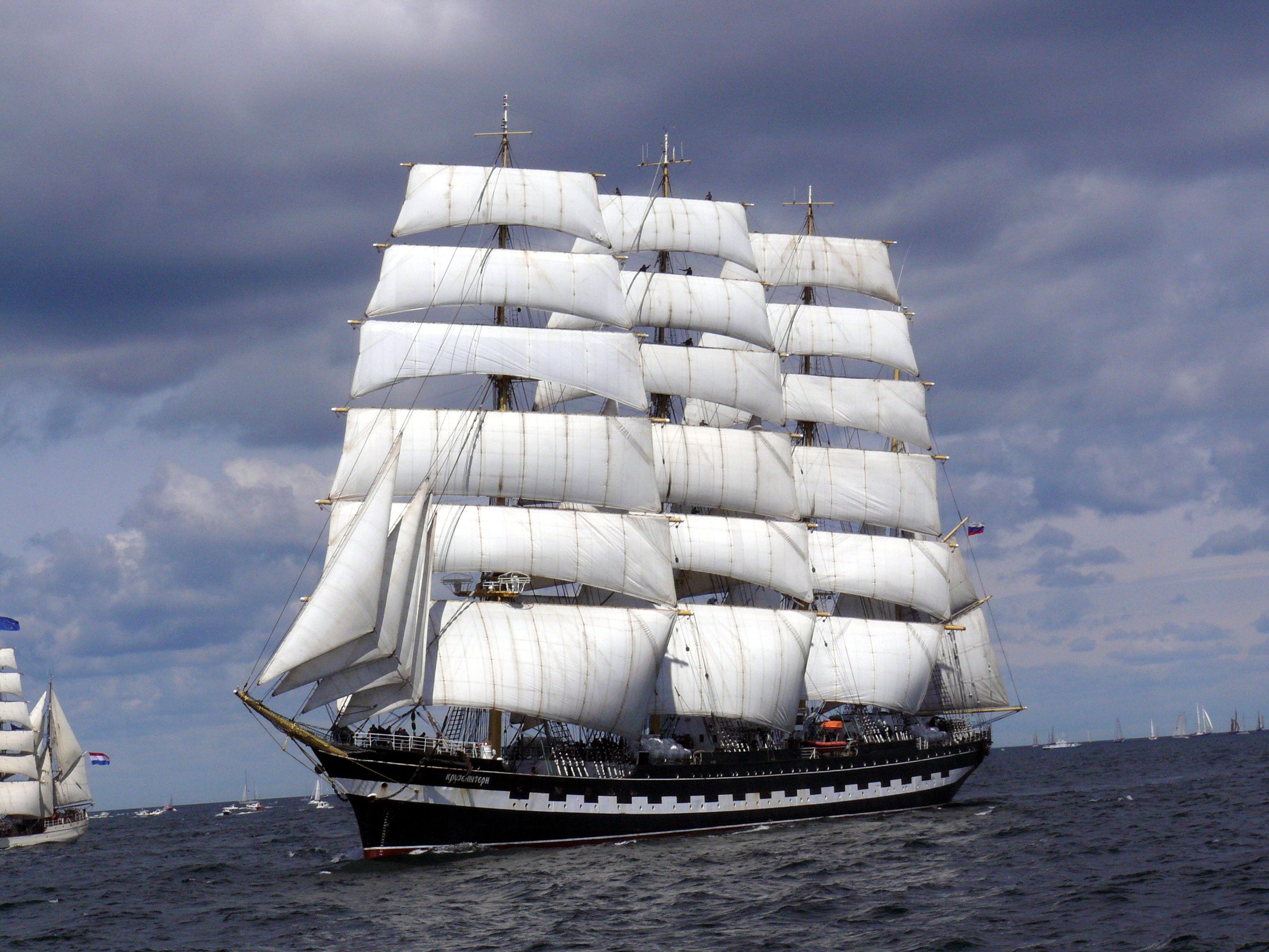 «Крузенштерн» (Kruzenshtern)